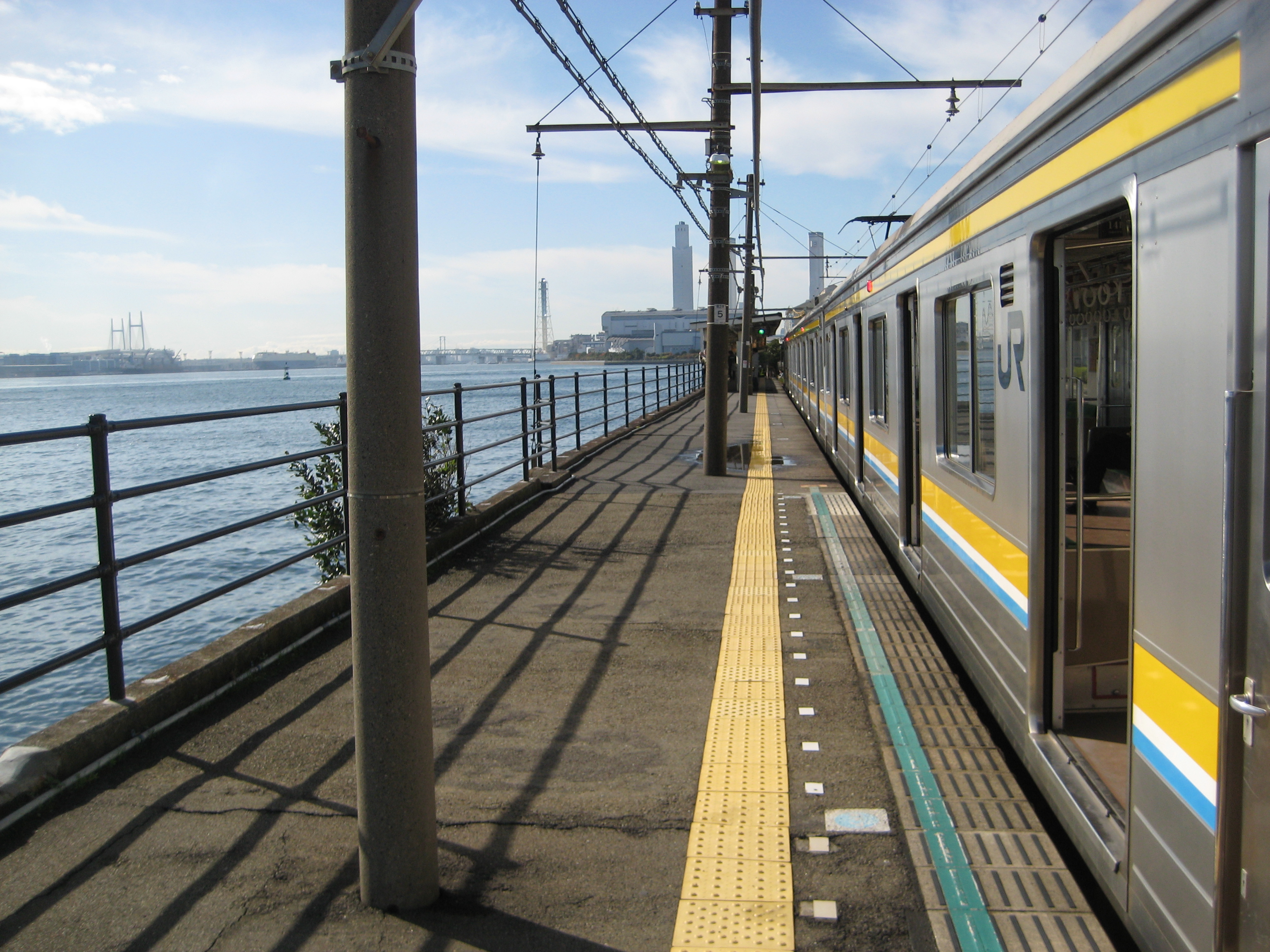 Umishibaura Station platform